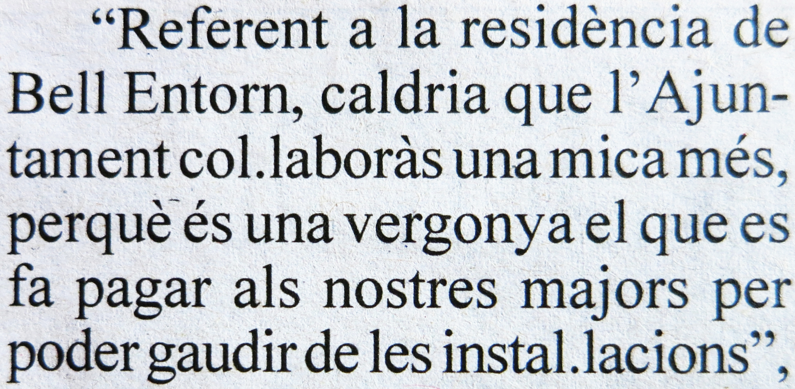 Replacement of the Catalan punt volat by an ordinary dot in a newspaper